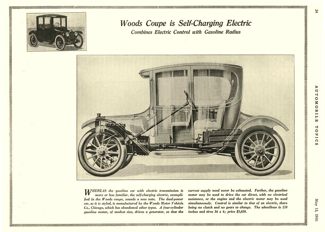 Inventor Granville T. Woods founded the Woods Electric Co of Cincinatti, Oh and developed electric and hybrid cars